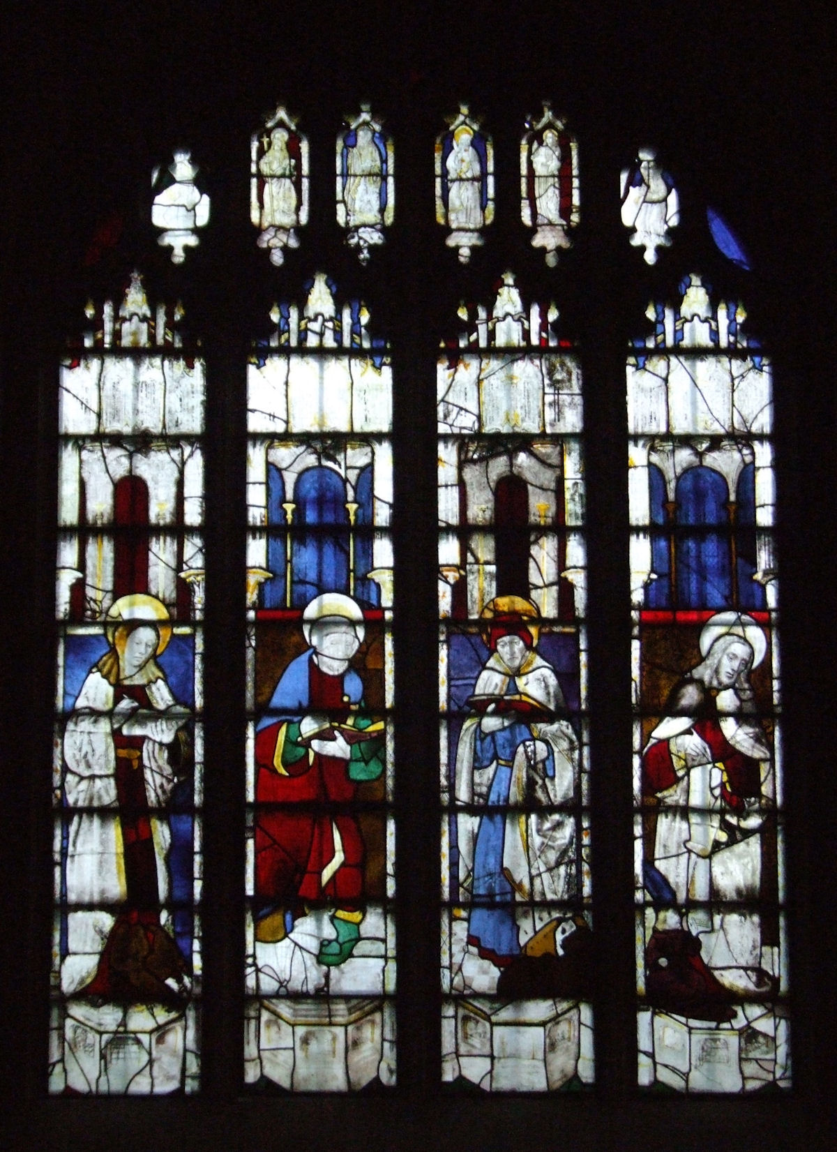 Window in St Mary's parish church, Fairford, Gloucestershire, with stained glass representing the four Evangelists